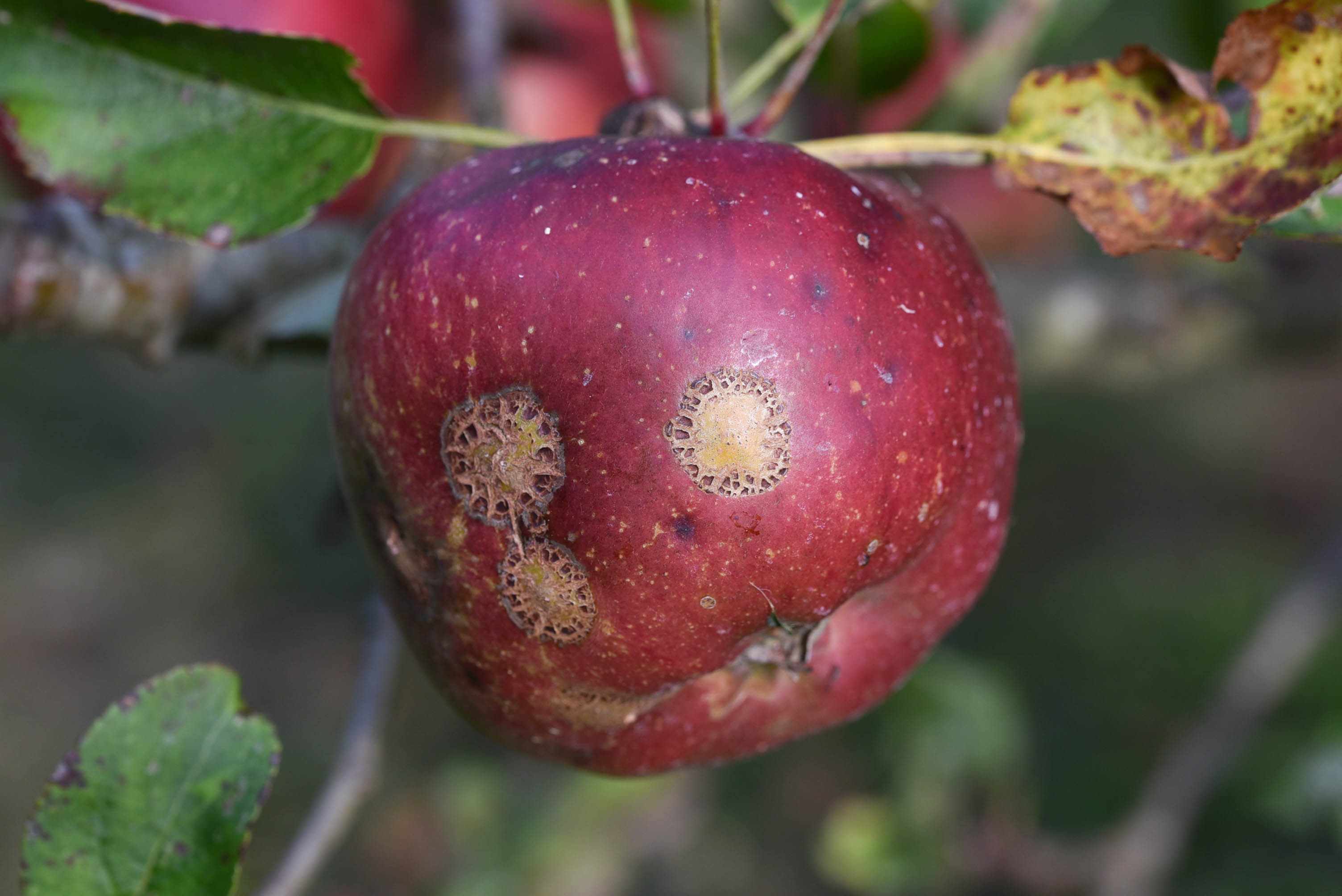 Venturia inaequalis on Malus domestica 'Elstar'